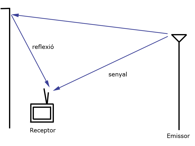 Picture to undersand reflections of the tv analogue signal